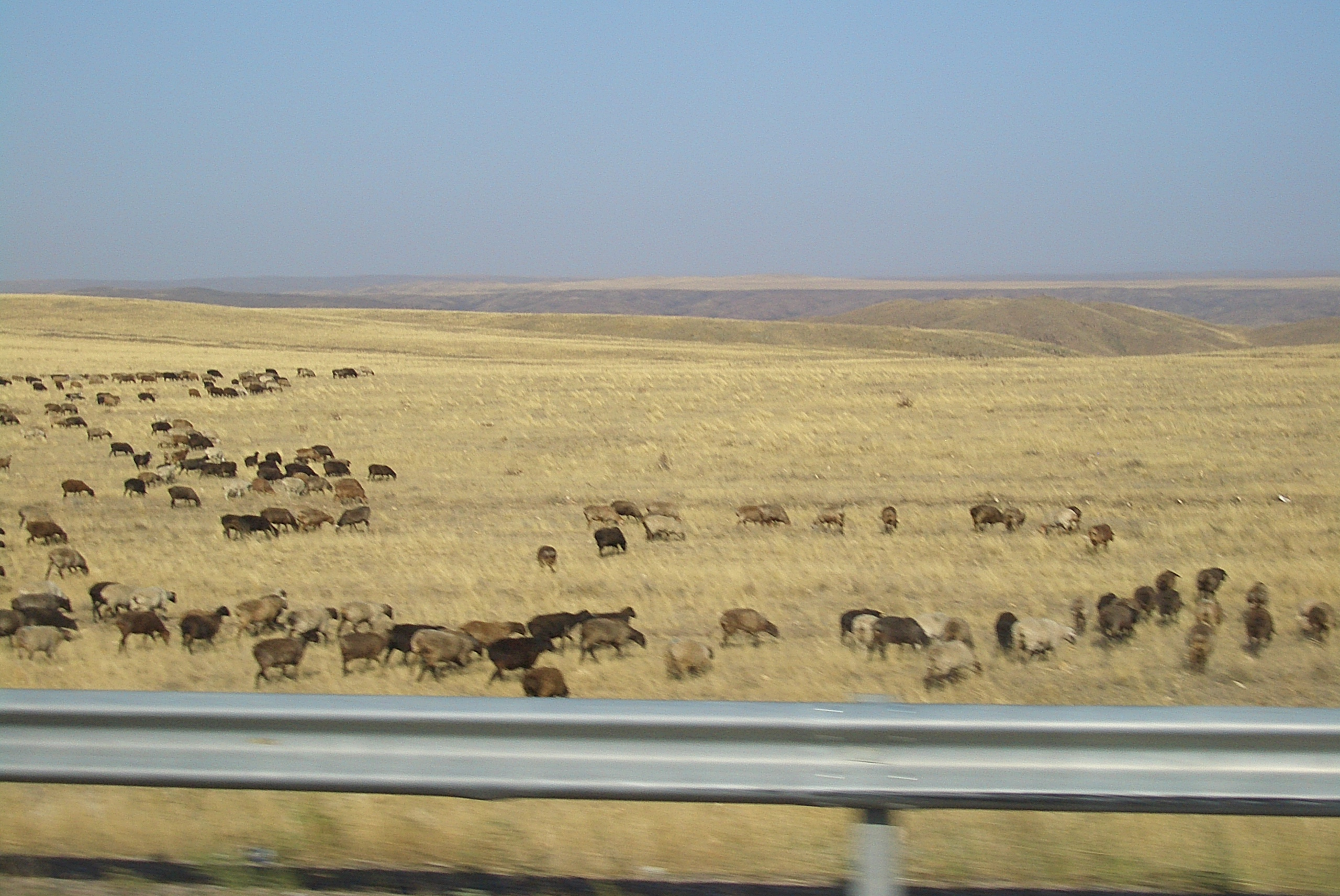 Sheep grazing in the hills between the Chu Valley and the Zhetysu, seen from the Bishkek - Almaty highway.